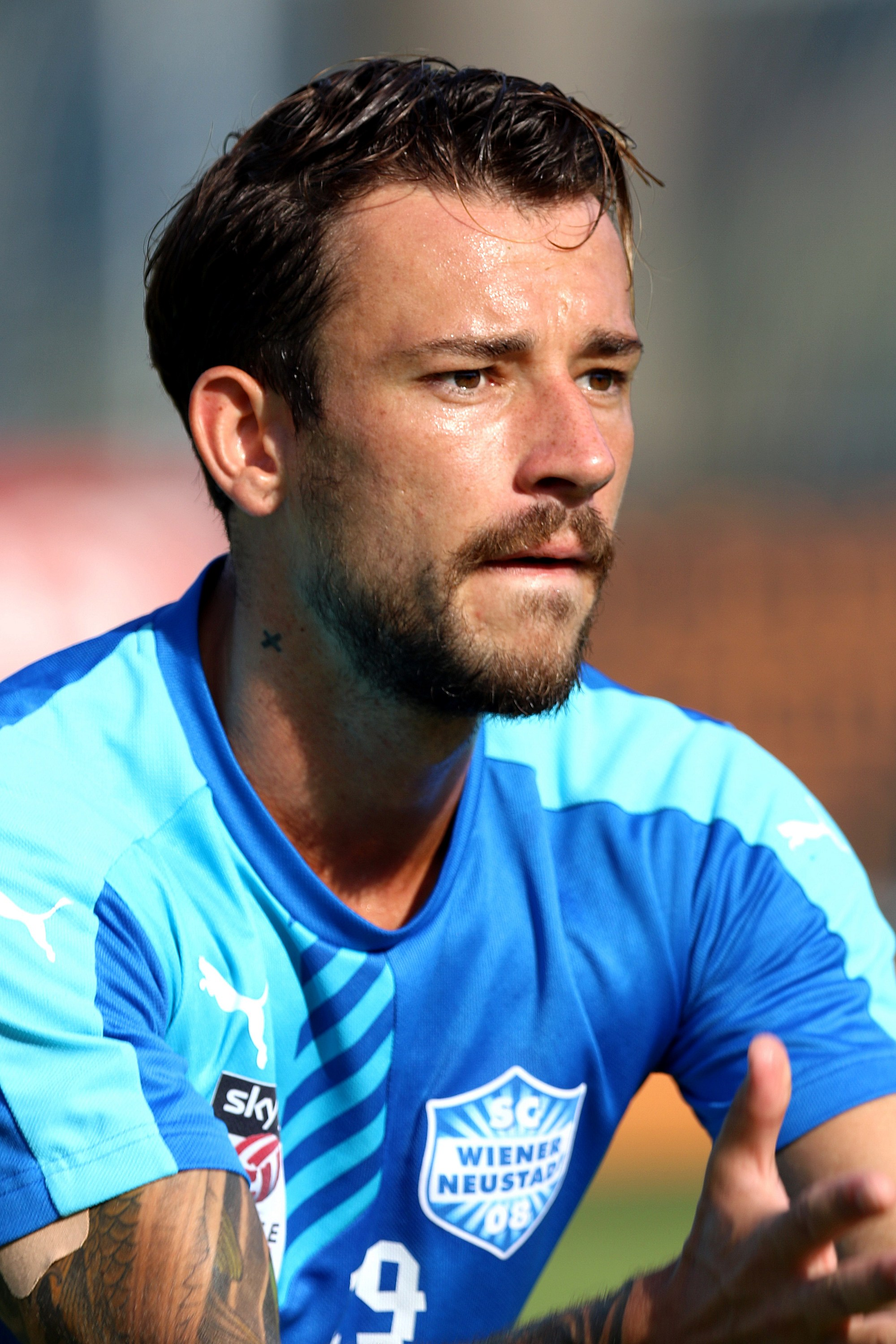 Friendly match SC Mannsdorf (red shirts) vs. SC Wiener Neustadt (blue shirts) 0-2 in Katzelsdorf on 2016-07-01. – The photo shows Philipp Hütter (SC Wiener Neustadt).